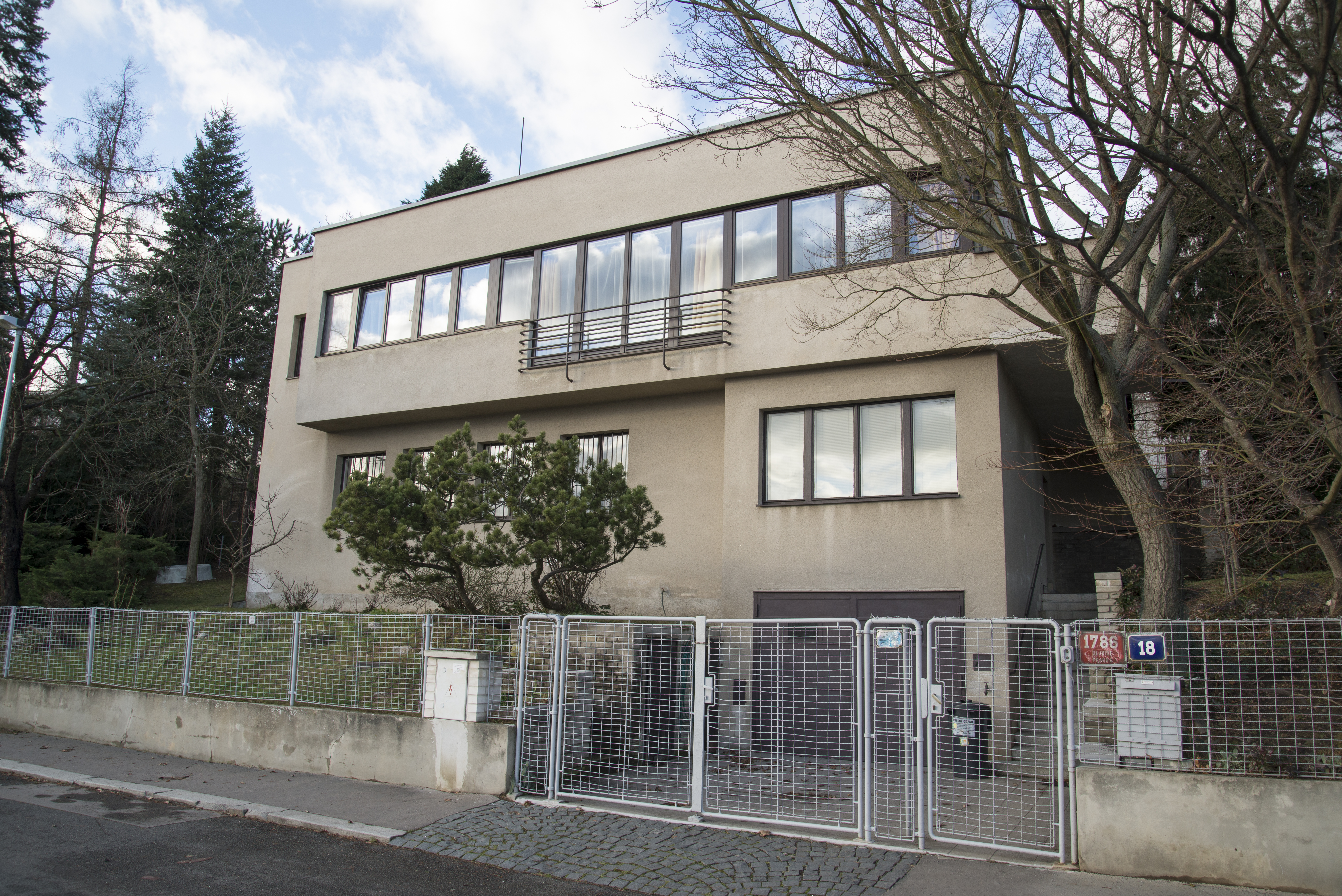 Osada Baba (Baba Functionalism colony in Prague) - House Maule